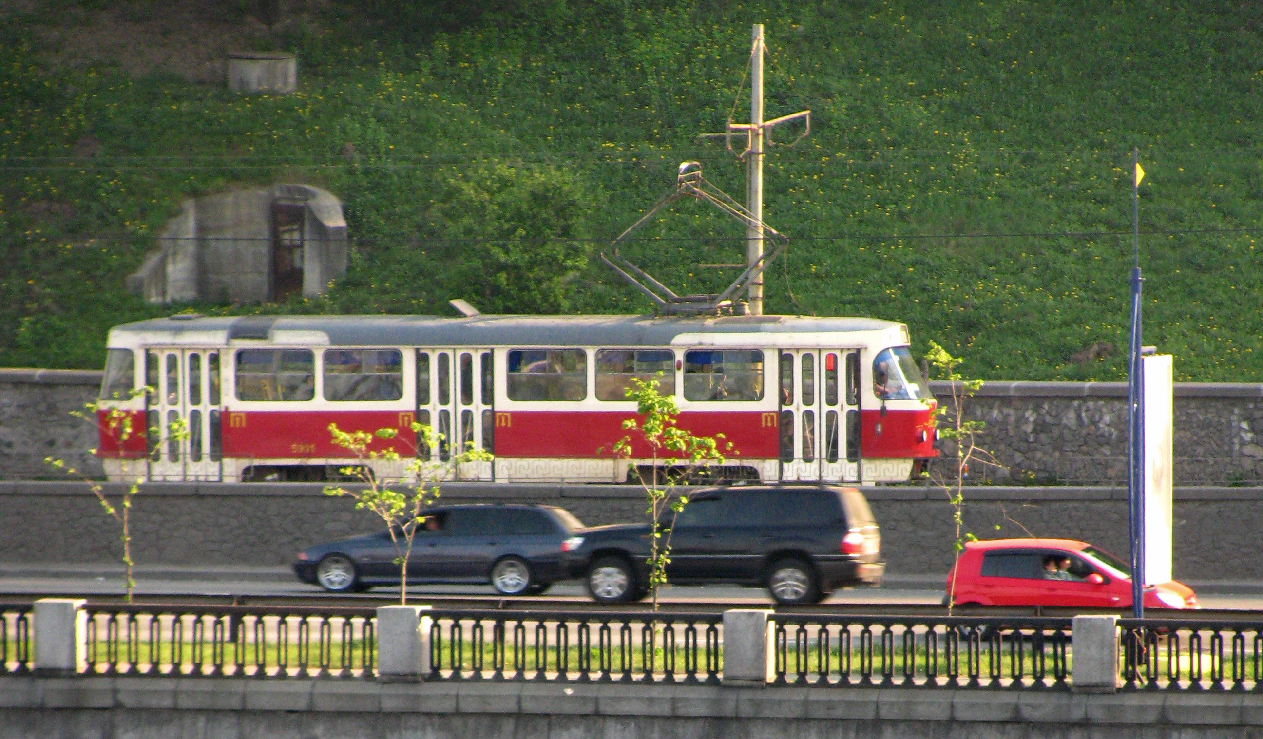 Tatra T3SU in Kiev, Ukraine